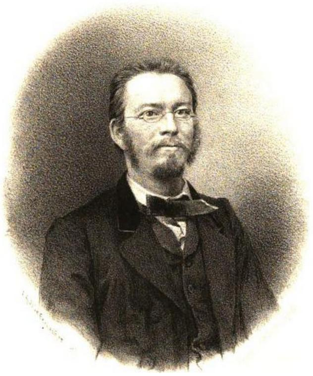 Konrad Bayer (also written Conrad Bayer; 1828–1897), Austrian-Hungarian composer of German nationality. He was born and lived most of his life in Olomouc (now the Czech Republic) and shortly in Vienna.